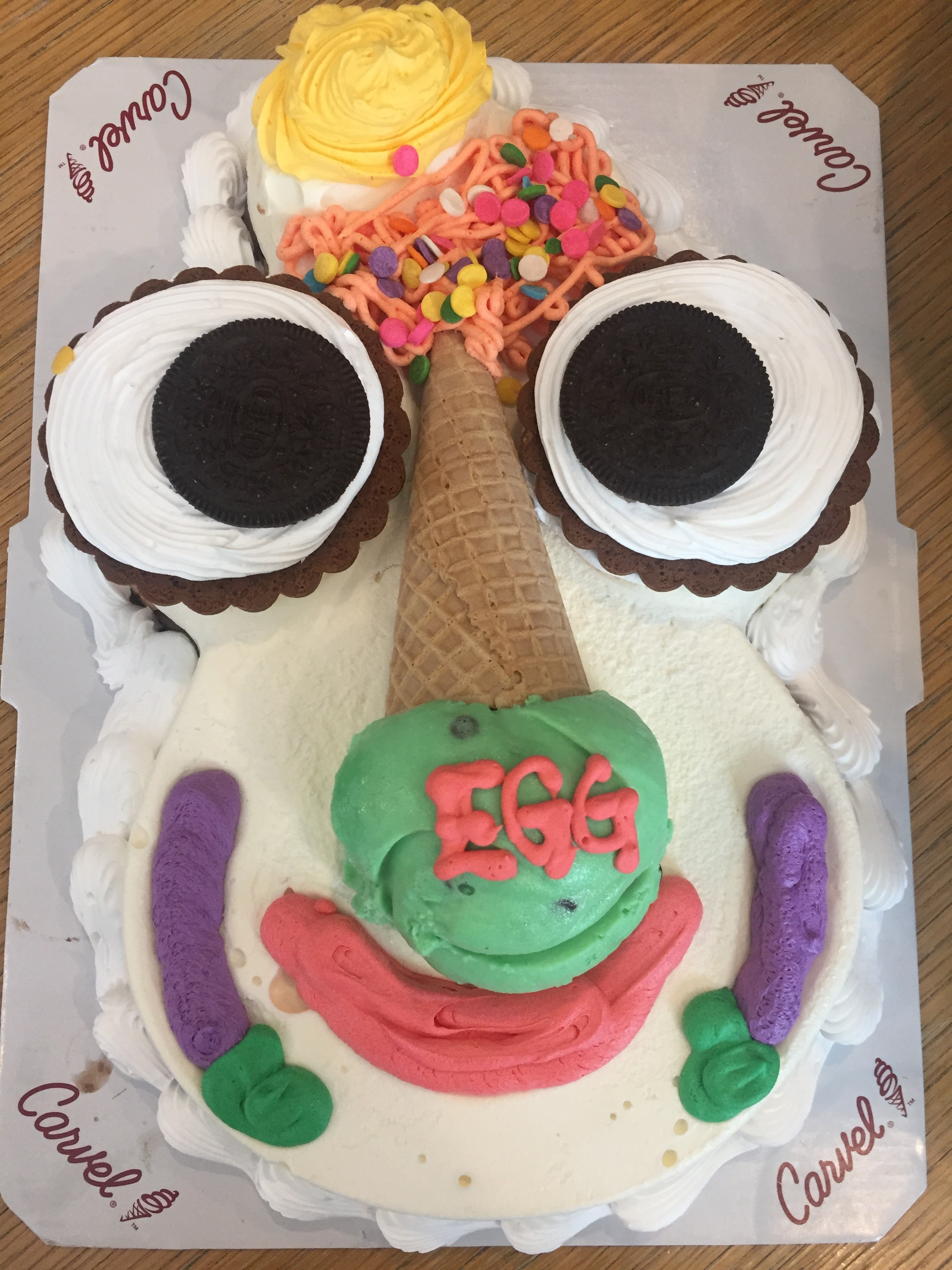 Carvel's Cookie Puss cake. "EGG" in icing to celebrate recipient's name.